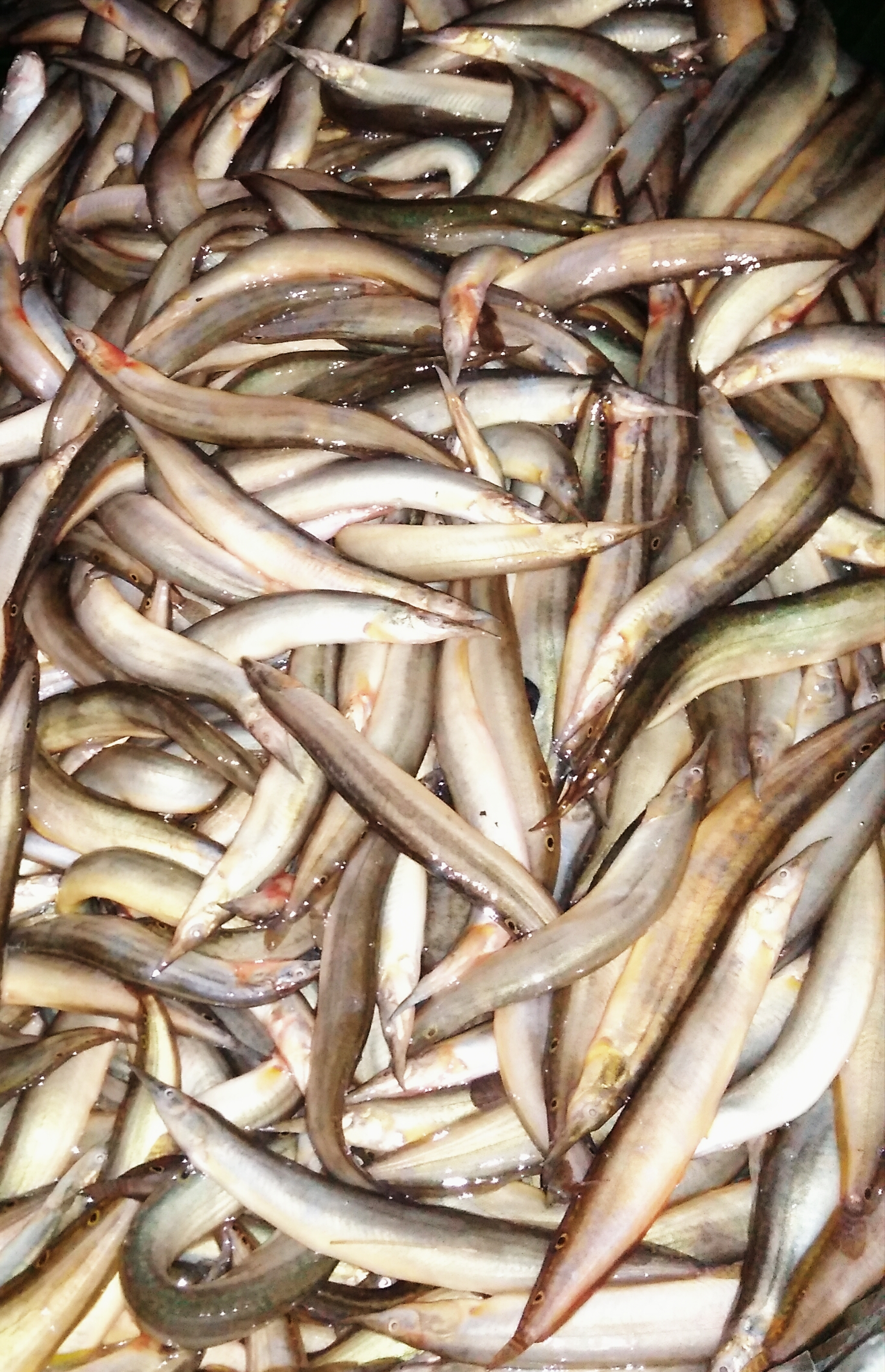 Bain fish also known as pakal fish.